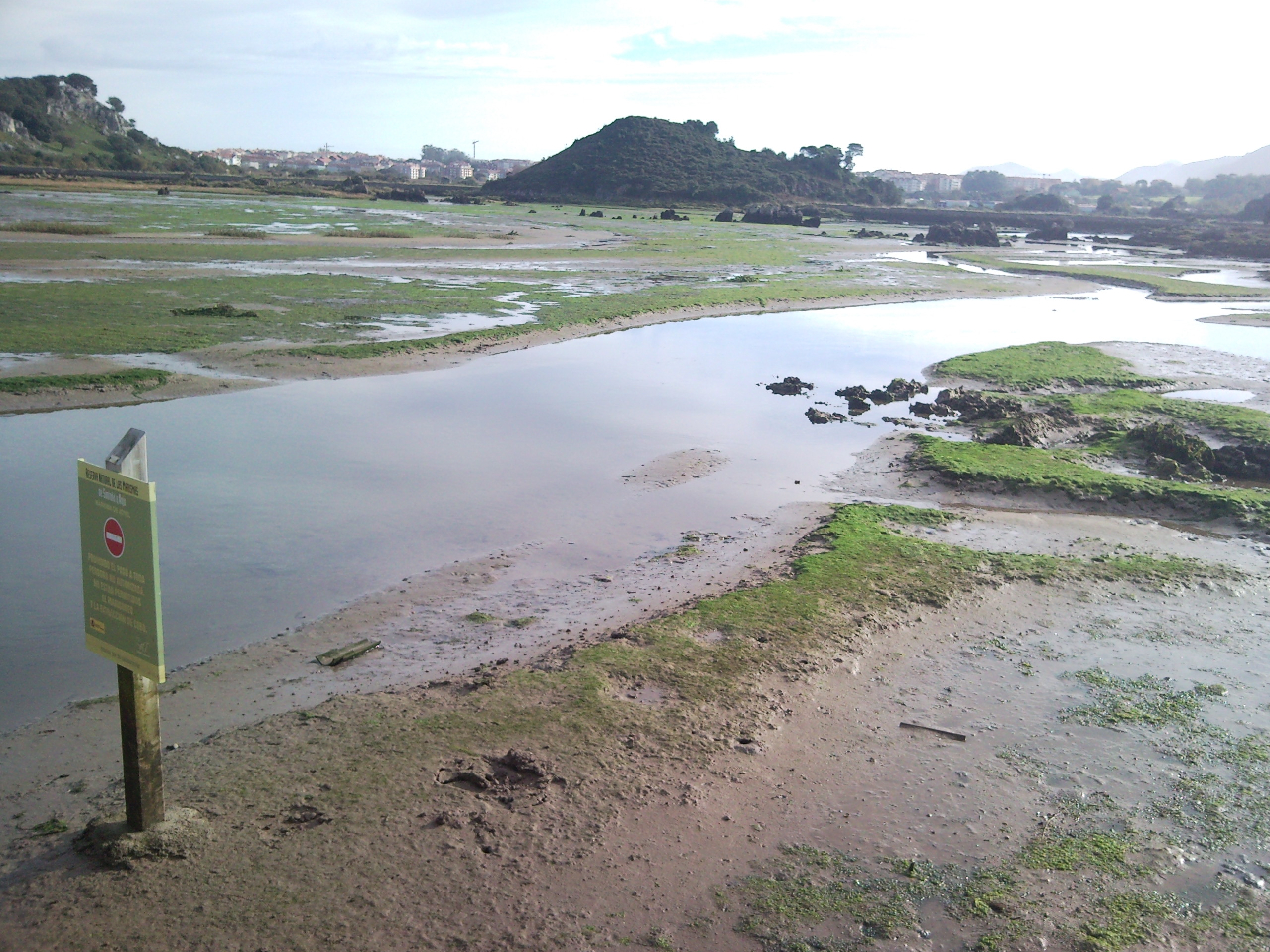 Partial view of the Marsh of Joyel at low tide (Cantabria, Spain).